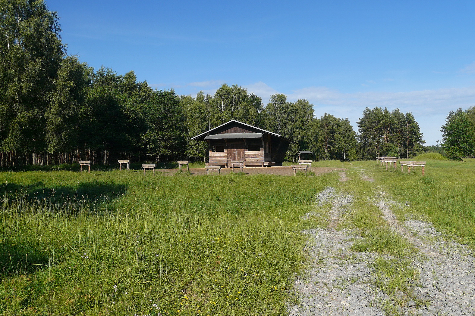 Rack in the Židlov preserve